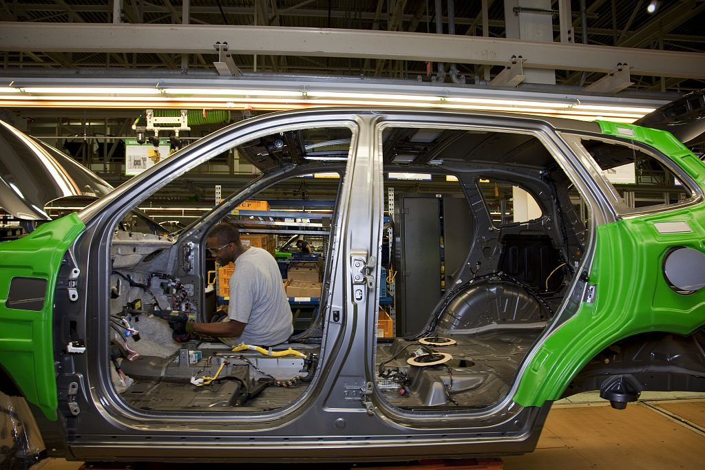 A Hyundai Santa Fe being built at Hyundai Motor Manufacturing Alabama in Montgomery, Alabama.